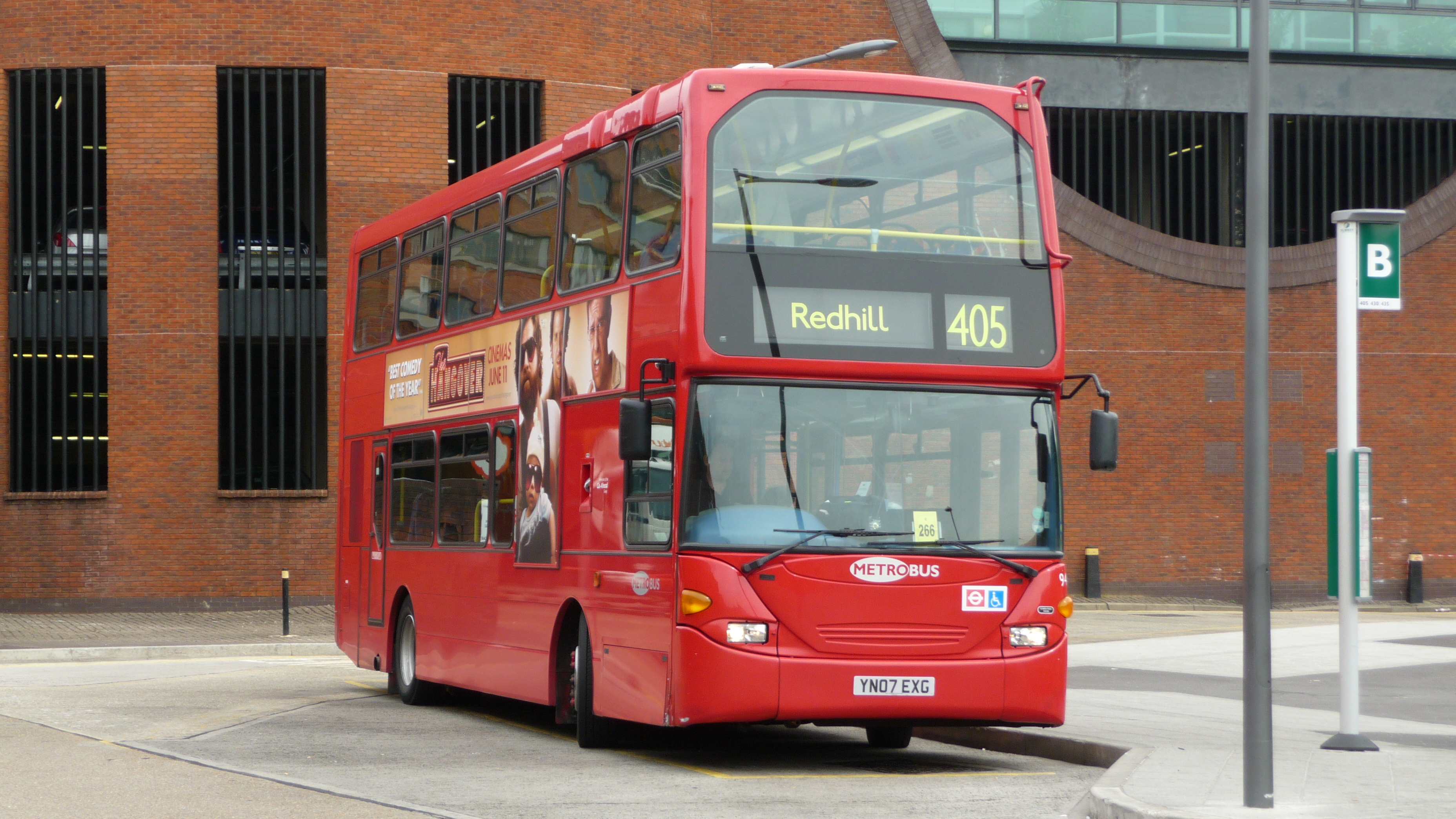 Metrobus 948 (YN07 EXG), a Scania N230UD/East Lancs Omnidekka, in Redhill bus station, on route 405. It is stopped at Stand B. The buses have the newer chassis compared to most OmniDekkas, hence they have a very odd looking high front bumper.